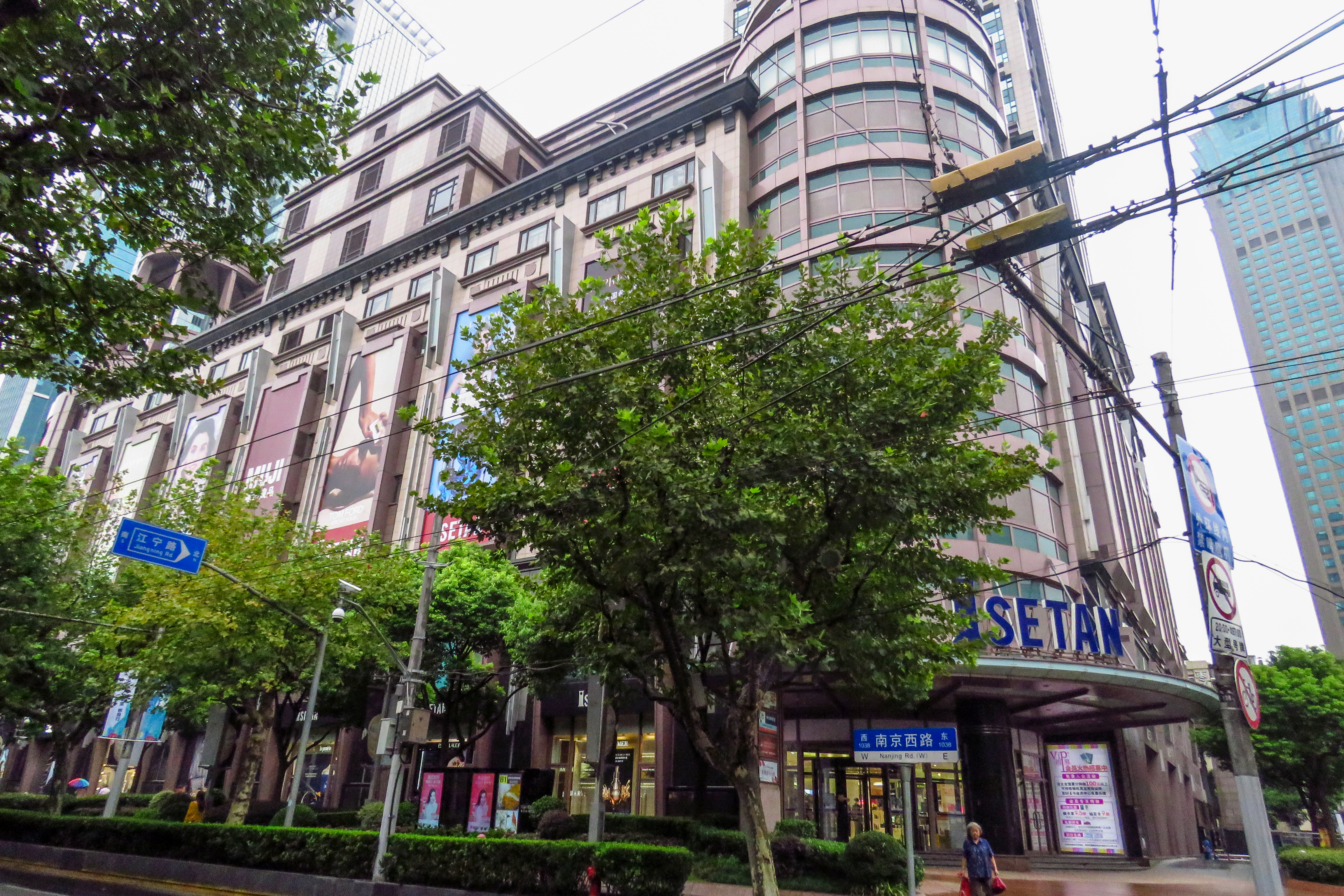 The southeast gate says Isetan.